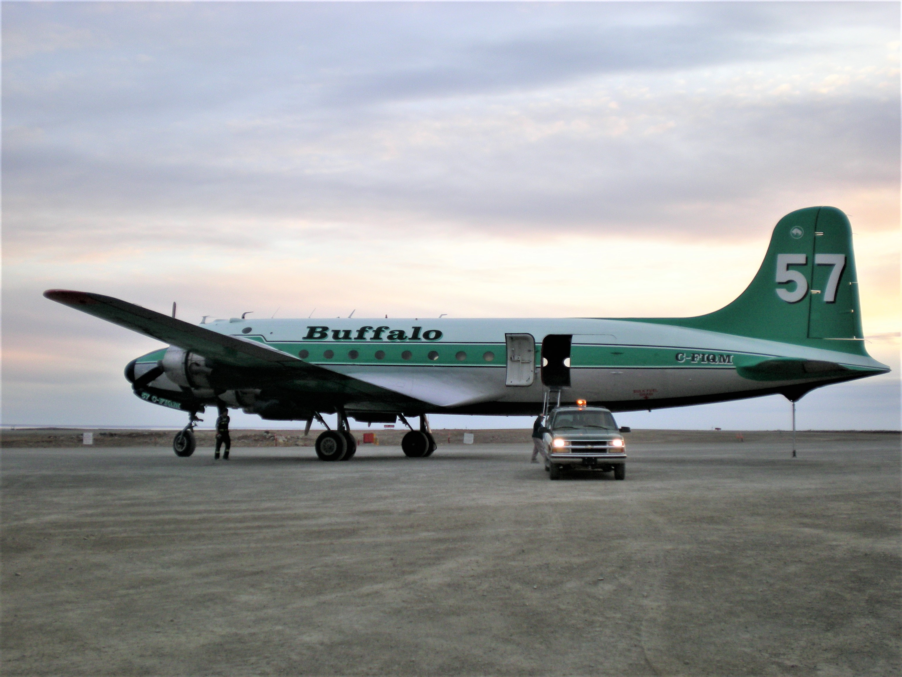 This is FIQM, one of 14 C54s registered in Canada, all to Buffalo Airways. Photo taken at Cambridge Bay.